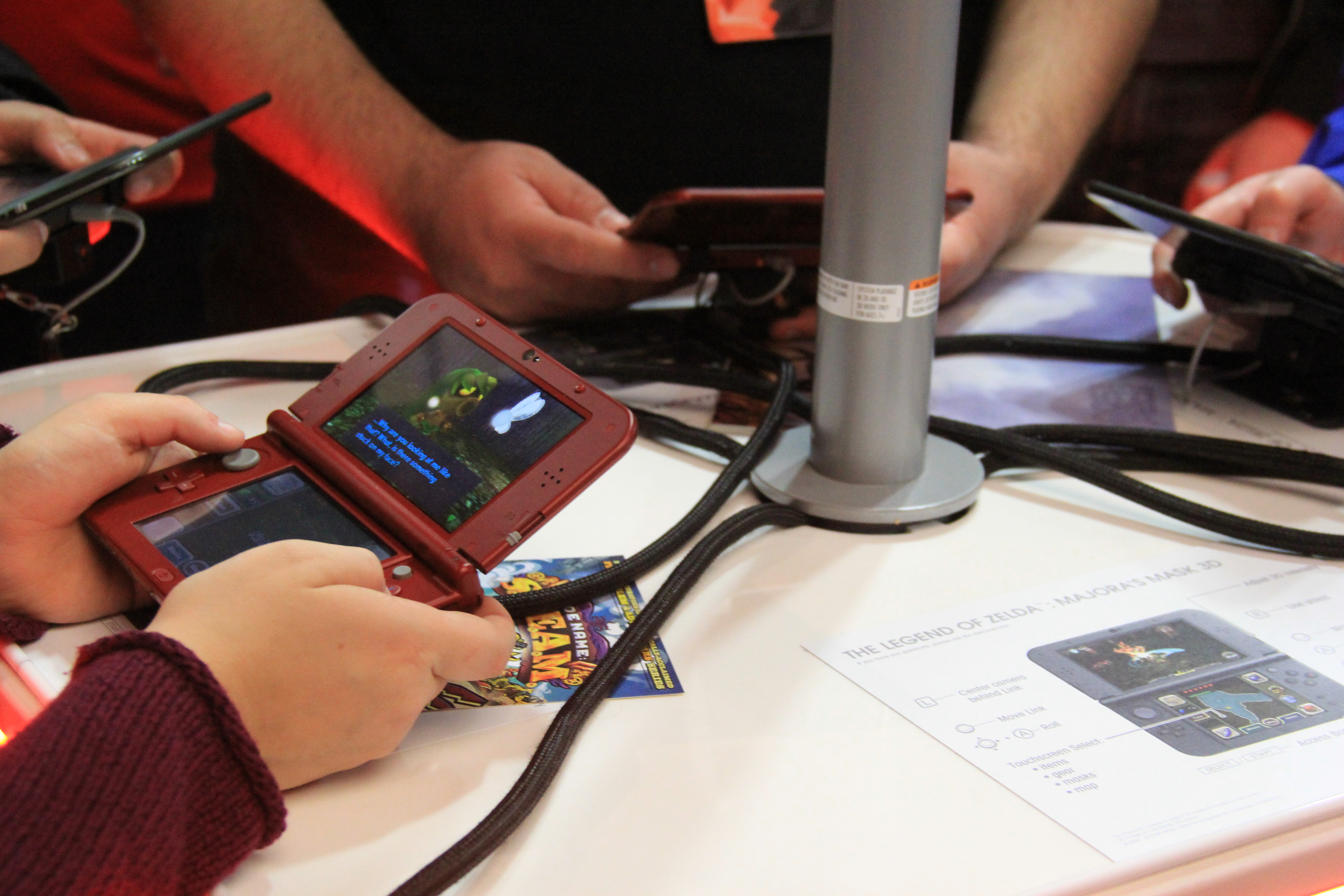 IMG_3474 Taken on day 1 of PAX South 2015.